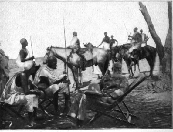 The image is of a Somali nomadic sultan. It was taken in 1896 in British Somaliland. The sultans name is Sultan Nur Ahmed Amen. It appeared in Outing: Sport, Adventure, Travel, Fiction. volume 39. 1902. The title of the article is: Hartbeest Hunting on Toyo Plain. By D. G. Elliot.